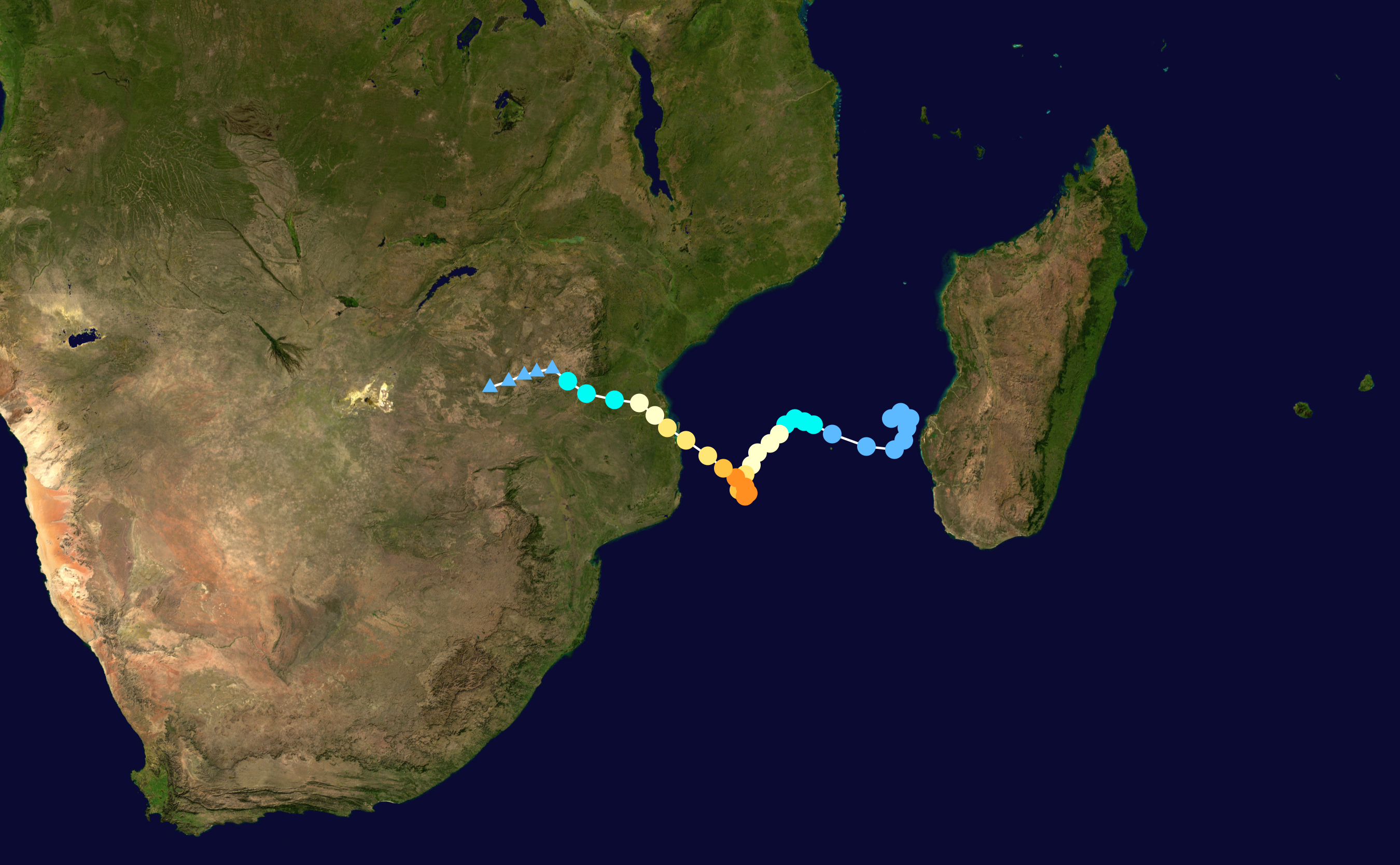 Cyclone Japhet (2003) track. Uses the color scheme from the Saffir-Simpson Hurricane Scale.